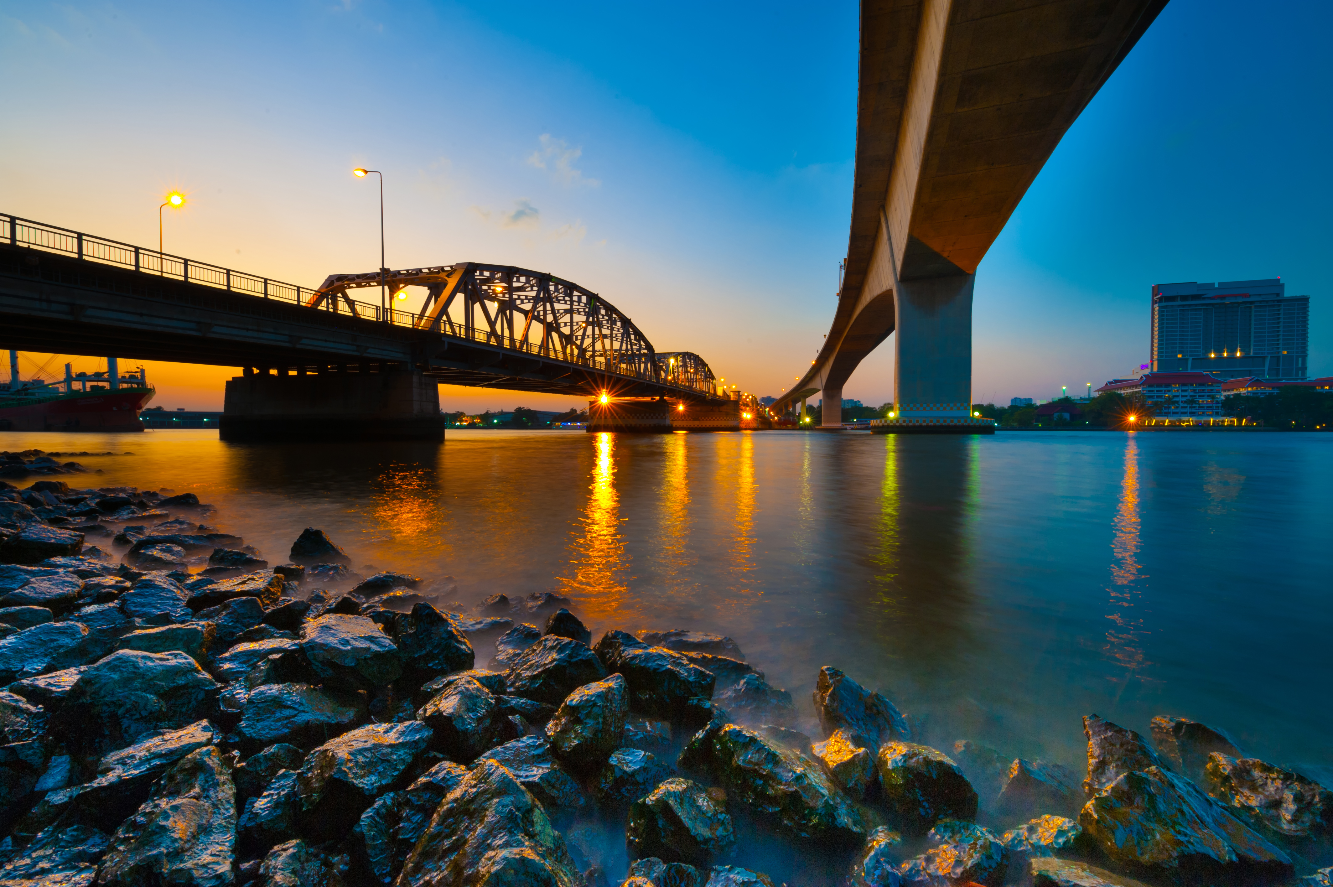 Krung Thep Bridge (on the left) and Rama III Bridge (on the right).